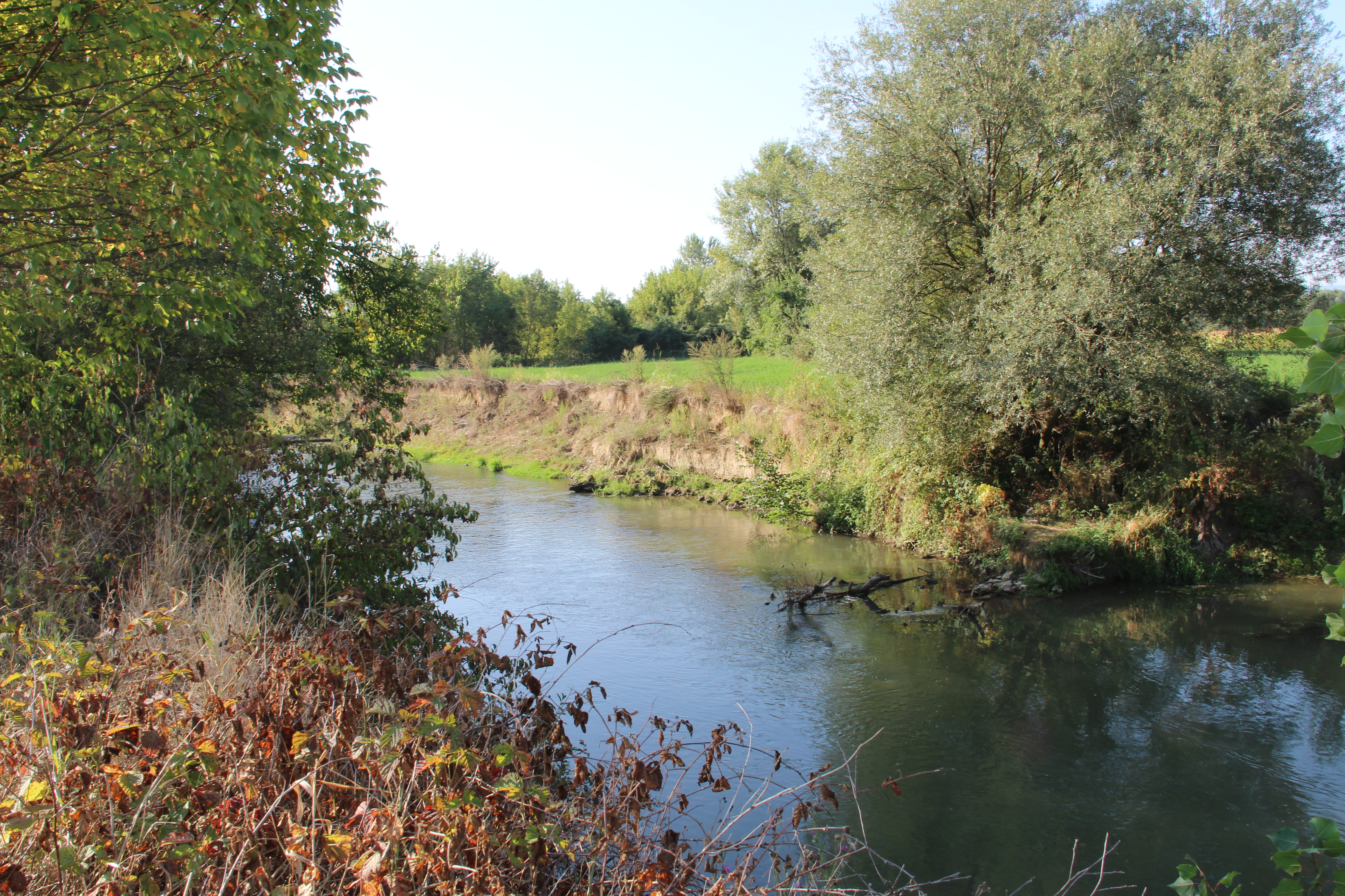 Veselinovac village - Municipality of Valjevo - Western Serbia - Kolubara river 1